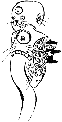 Mitsume-Kozō (三つ目小僧, a three-eyed boy) from the Gekkō-Manga (月耕漫画)